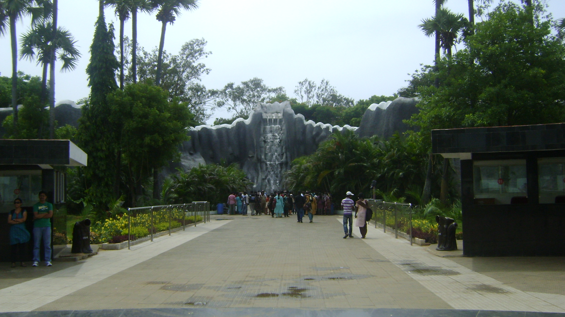 Fountain at the entrance at Vandalur Zoo, taken on 18 August 2012